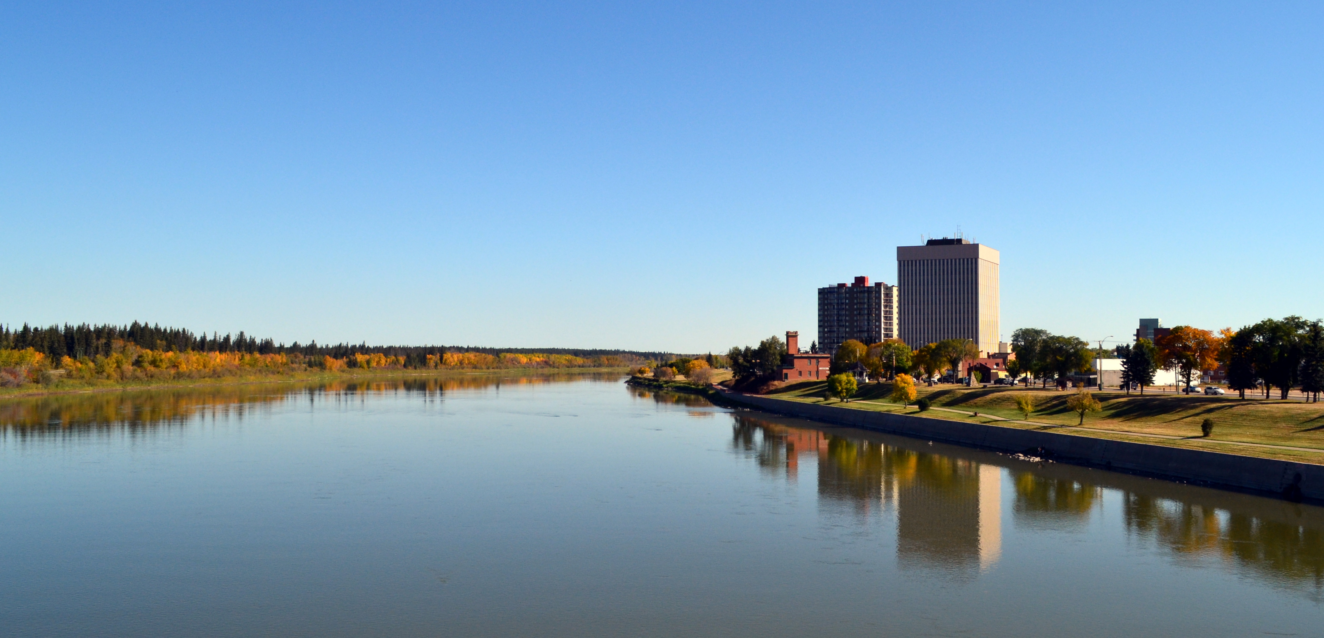 Prince Albert and District is rich in recreation and leisure opportunities. Our abundant city parks include Prime Ministers Park, Pehonan Parkway, and the beautiful 1500 lakes that make up Prince Albert National Park. During the winter months, the City of Prince Albert and District come alive with fun-filled activities for the entire family! Cross-country skiing, snowboarding, snowshoeing, and winter hiking are some of the activities you can experience when you visit Little Red River Park, Prince Albert's playground areas, or any of our Lakeland areas. Fall and winter give way to spring and summer.... Prince Albert's farmers market, downtown street fair, retail shopping, exhibitions, rodeos, and the best golfing around - we have it all! With endless adventure possibilities within an hour from Prince Albert, there isn't another City and District like us!